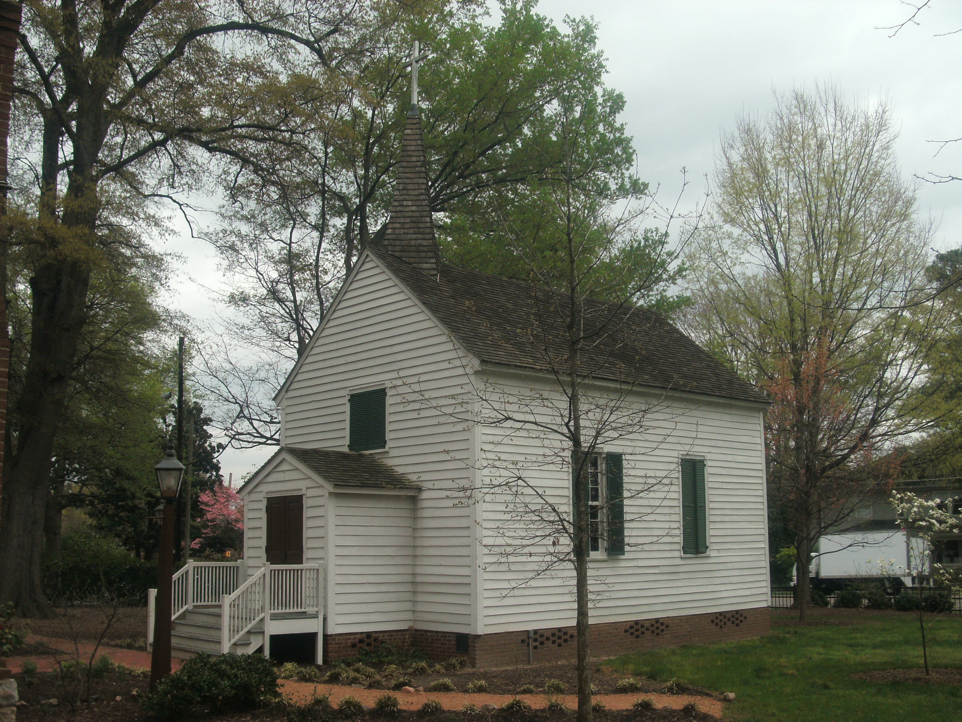 Taken by me in 2015 GEDSC DIGITAL CAMERA